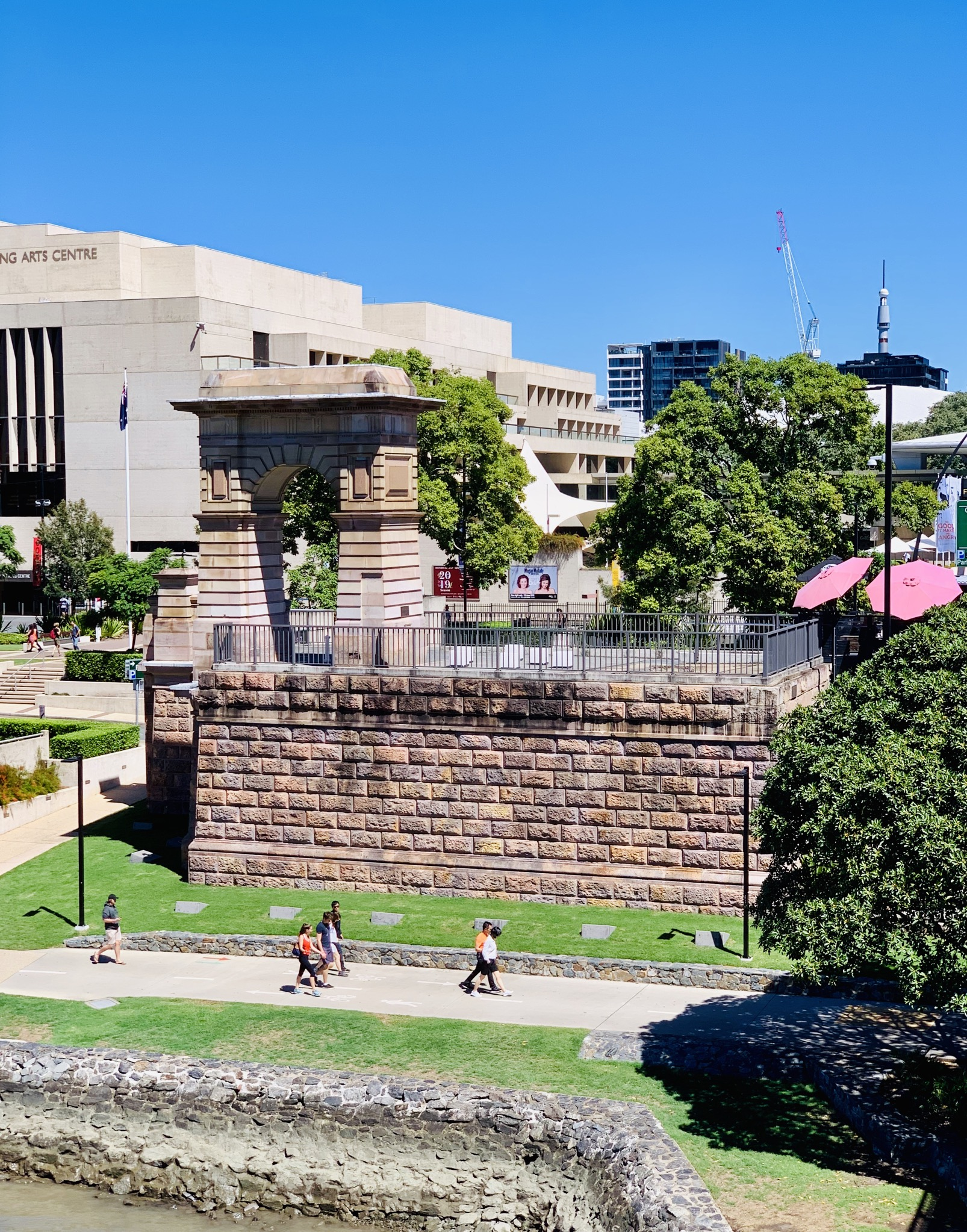 Pedestrian arch at the southern abutment of the former Second Victoria Bridge seen from the current Victoria Bridge, Brisbane